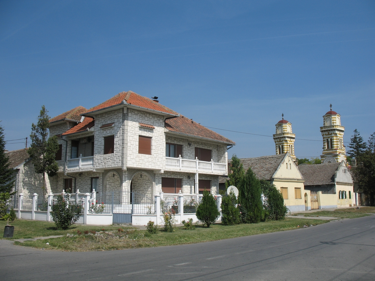 Ovča, near Belgrade, Serbia.